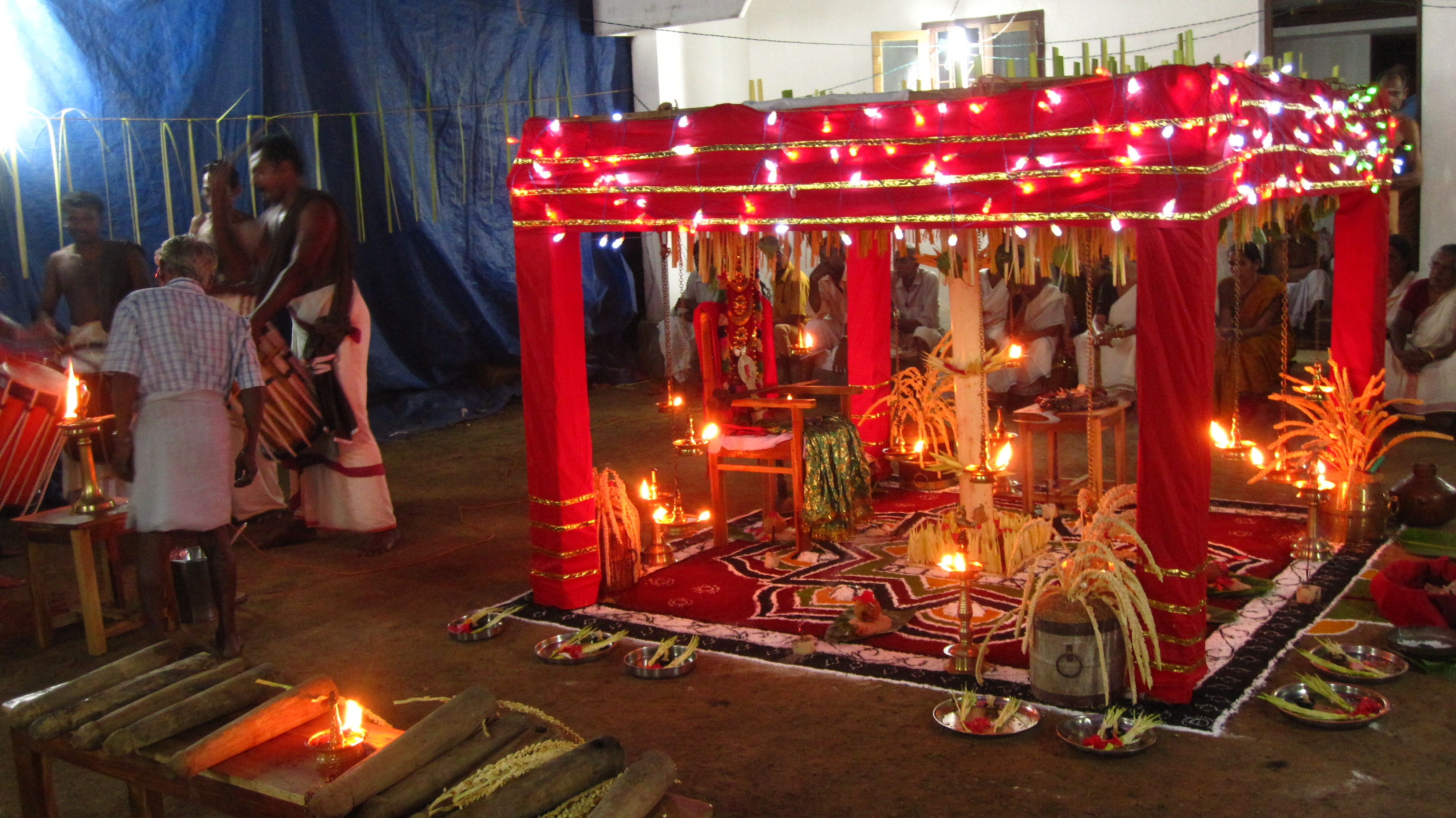 Pallippaana